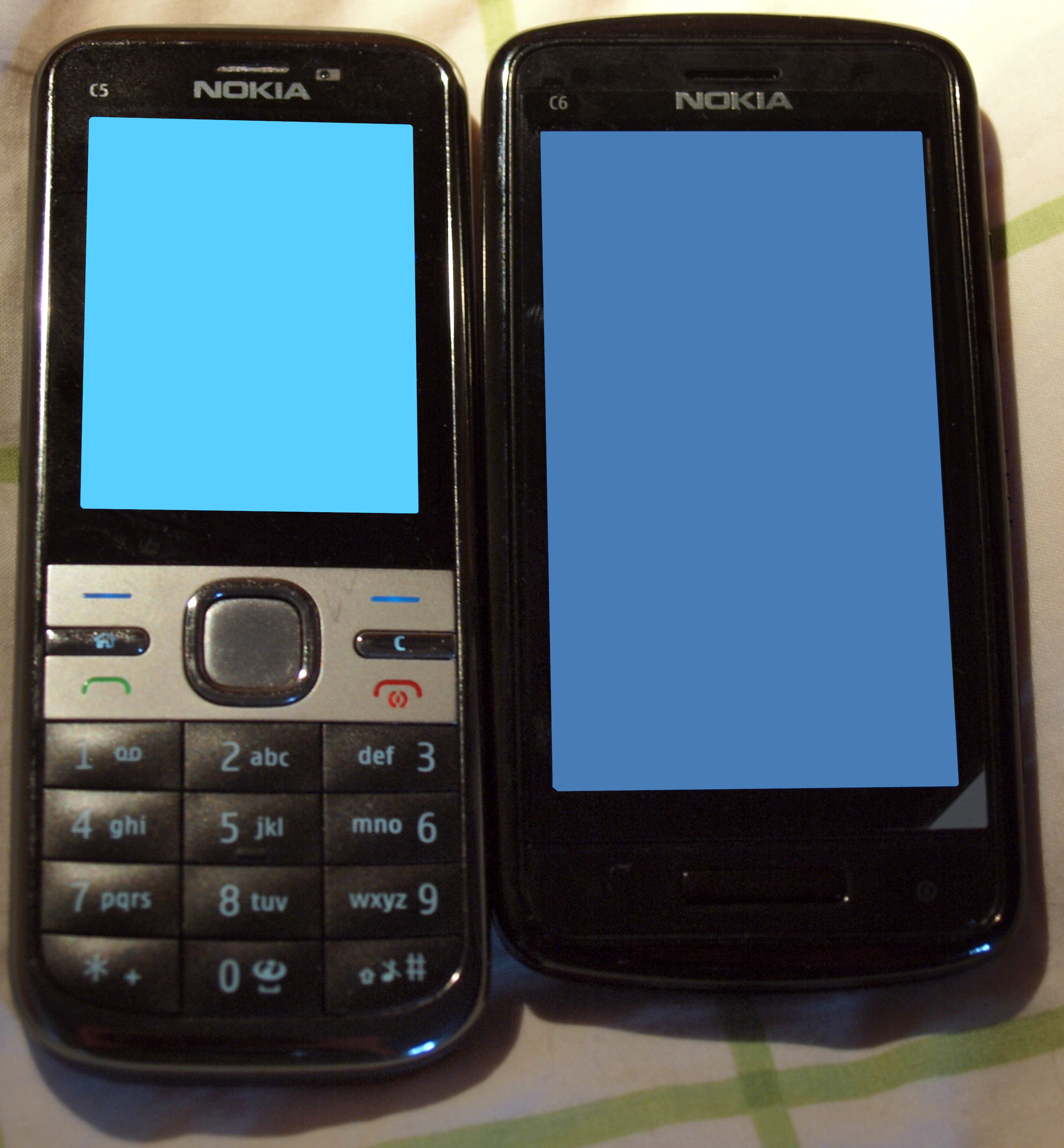 A Nokia C5-00 smartphone and a Nokia C6-01 smartphone side-by-side. The image has been edited to blur out the personal details of the phone owners and their contacts.